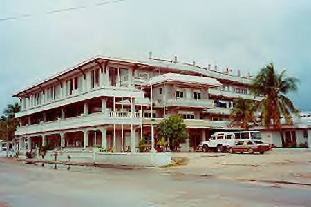 Obtained photo from :de:OD-N-Aiwo Hotel; photographer provided to Wikipedia photo of OD-N-Aiwo Hotel taken in 2002.